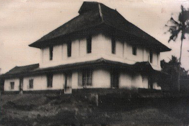 Central Mahallu Jama’ath (CMJ) Old Pics